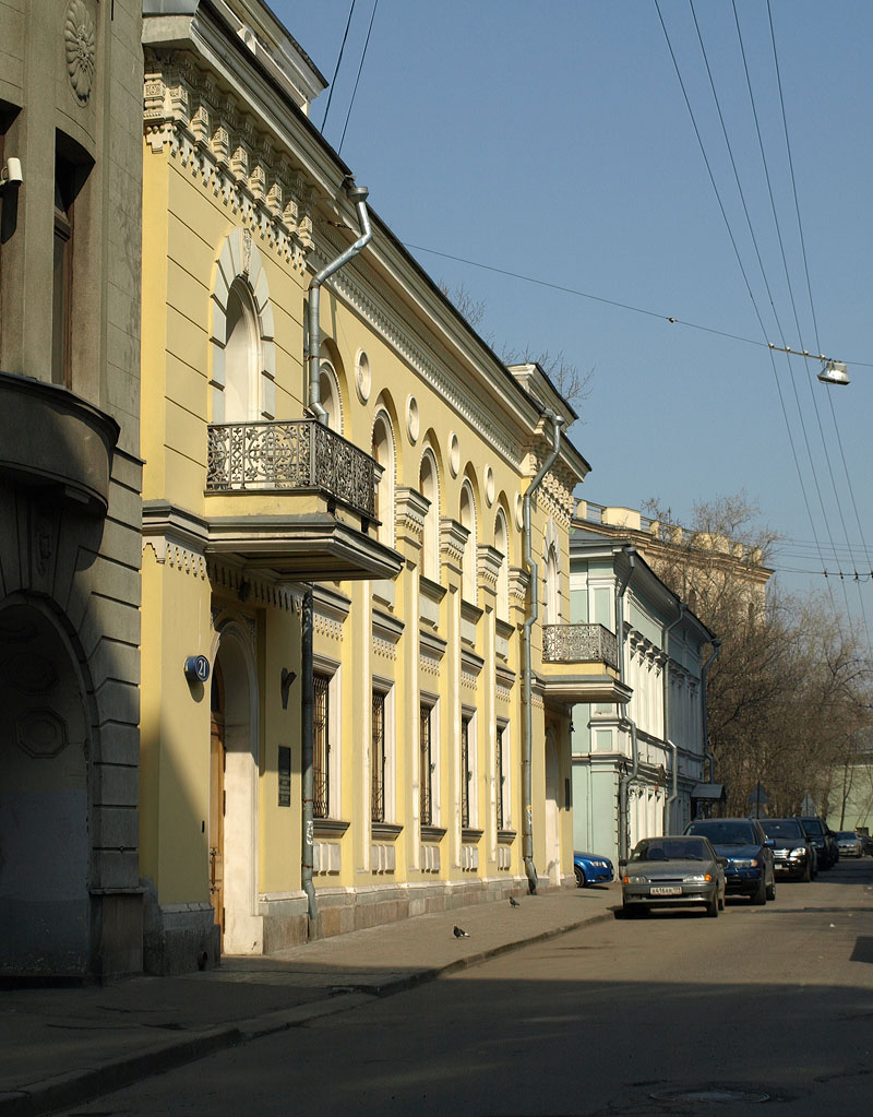 21, Trubnikovsky Lane, Moscow. 1876, architect: A. A. Nikiforov